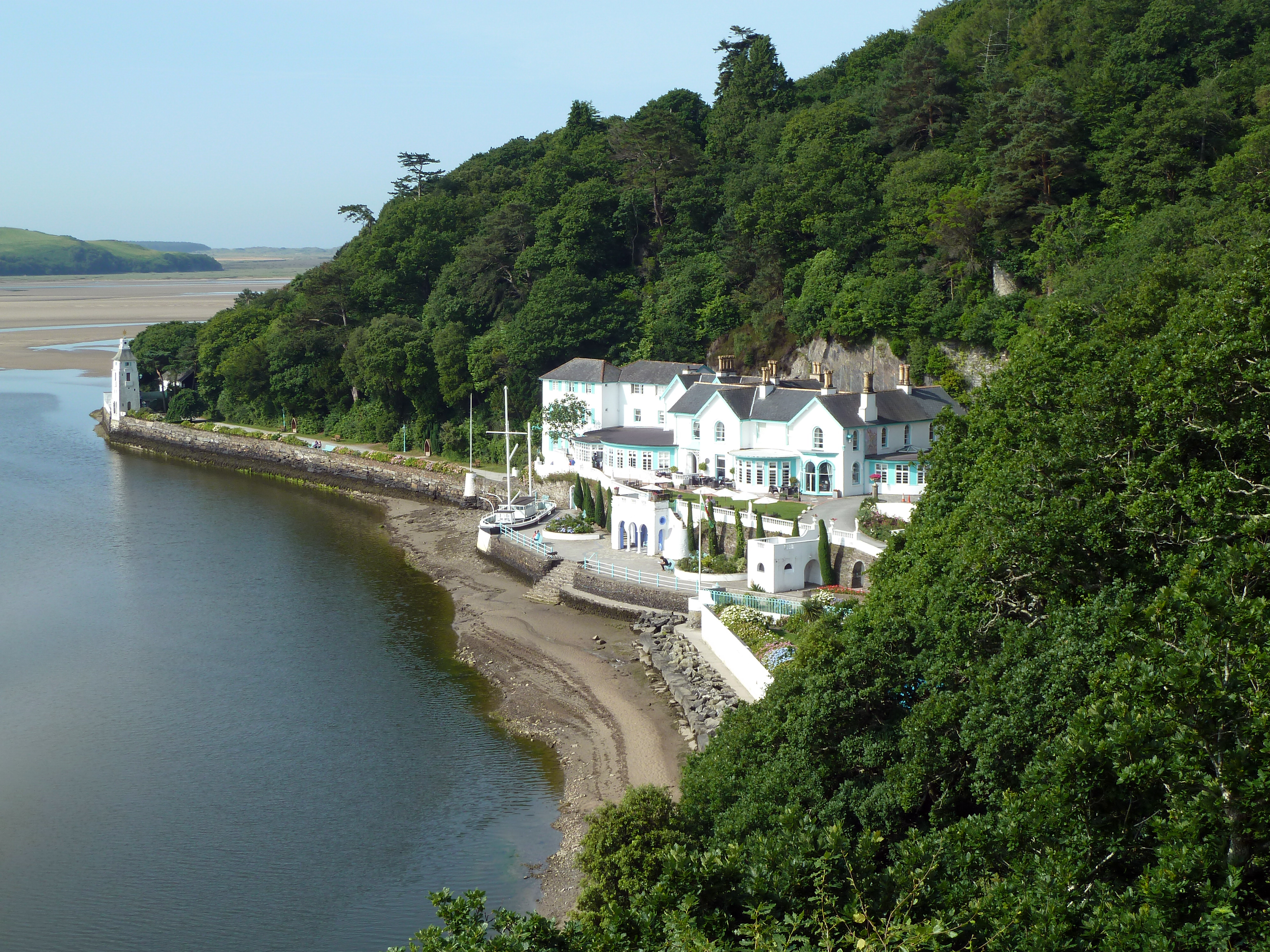 Gwesty Hotel, Portmeirion